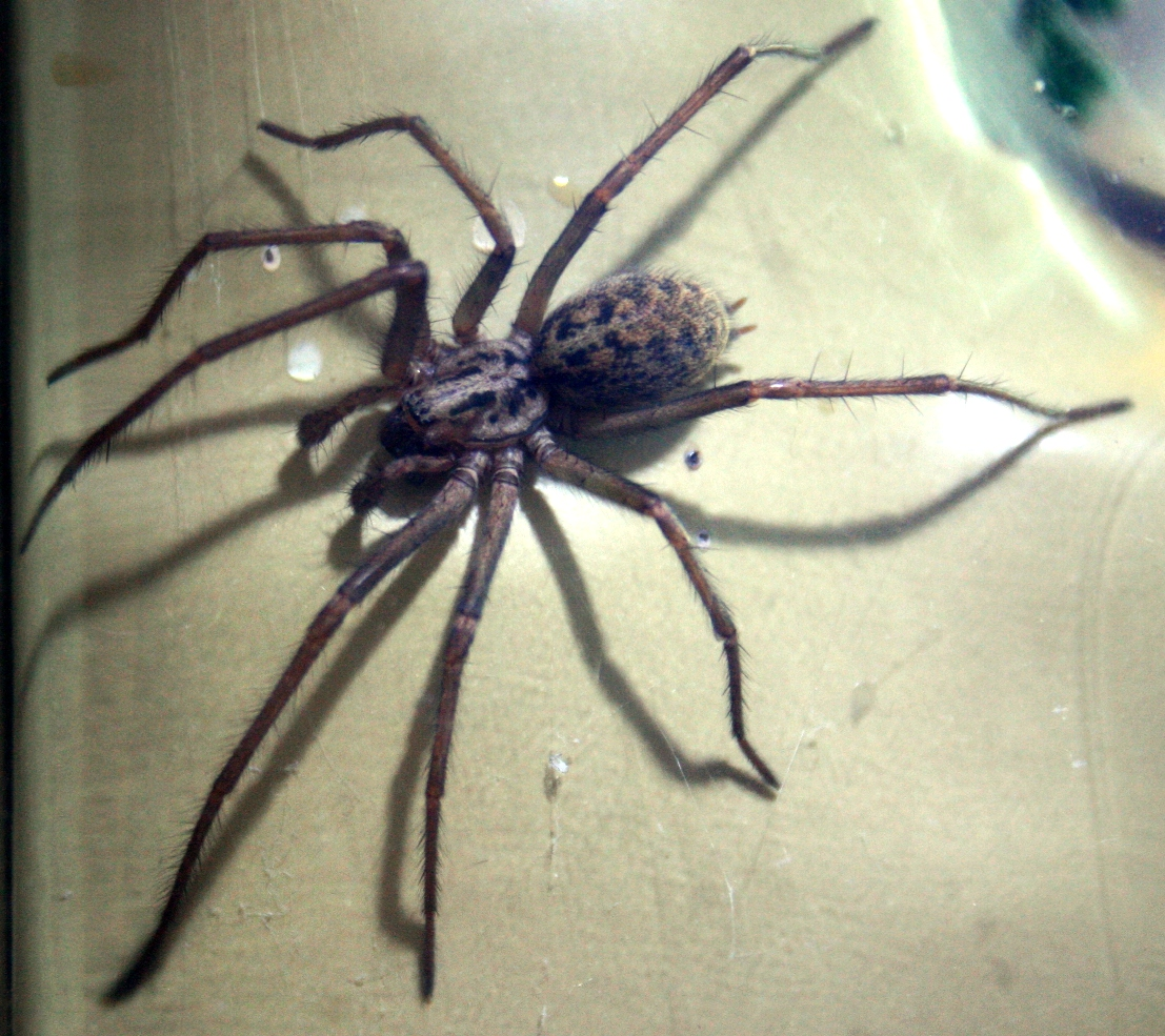 Male Tegenaria duellica (syn. of Tegenaria gigantea, or Giant house spider). Size is about 4.5 cm across legs. France.